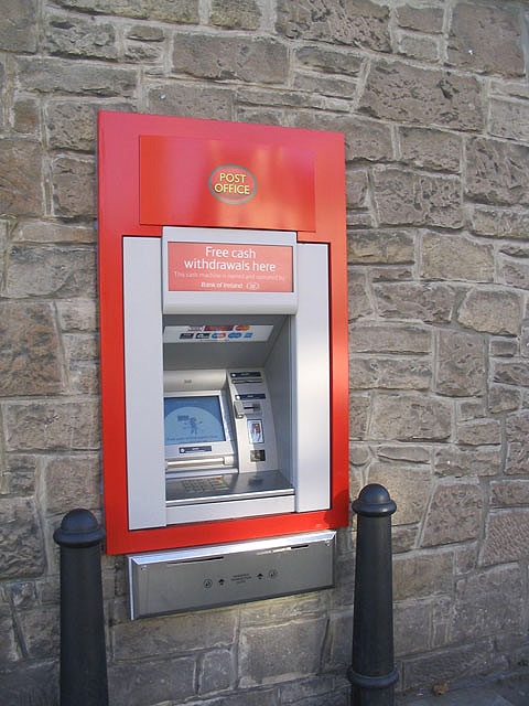 Cash machine outside Peebles Post Office